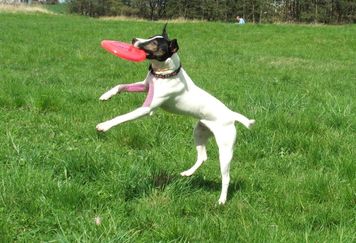 Parson Russell Terrier - age 10 months, playing frisbee.